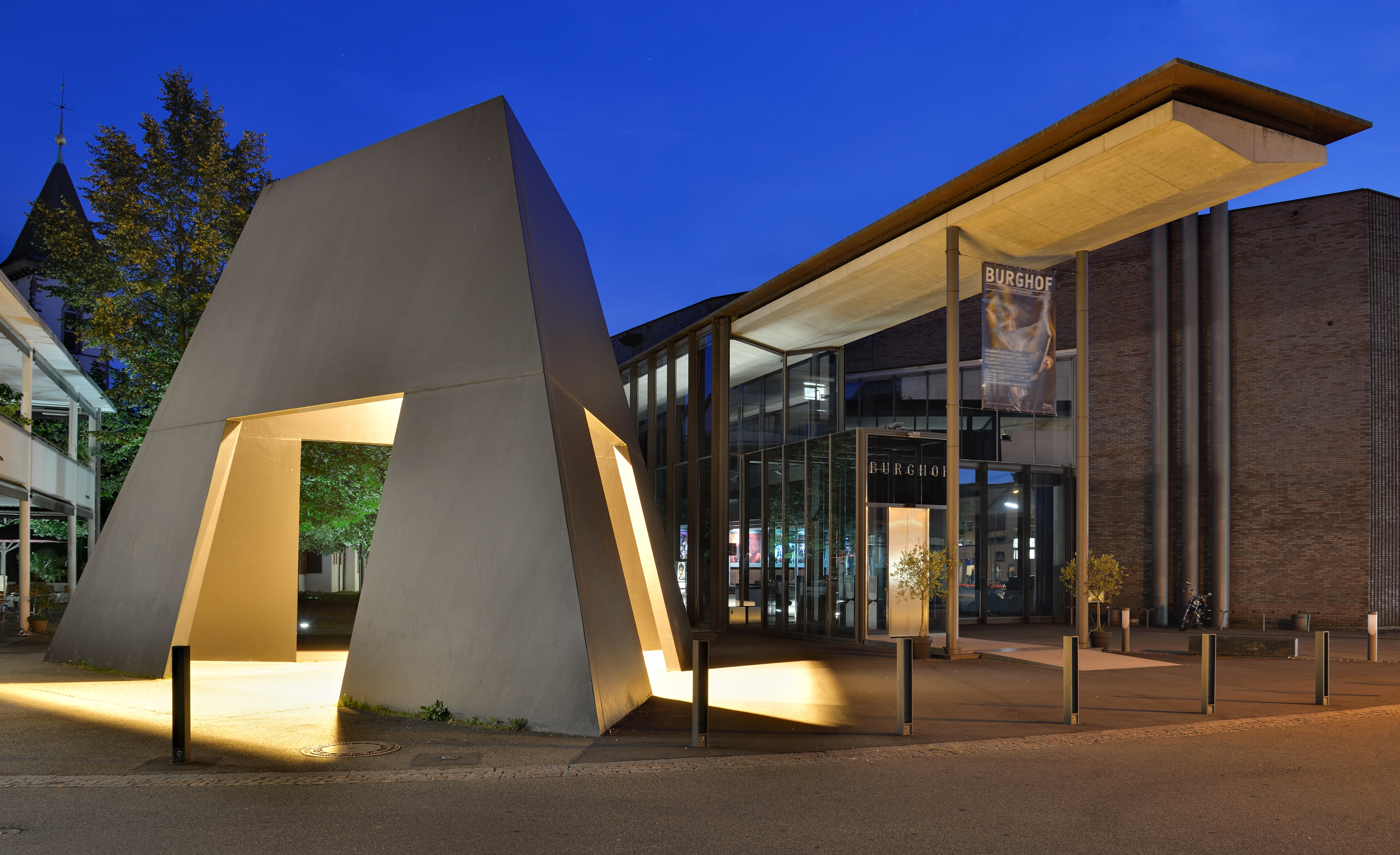 "Burghof Lörrach"